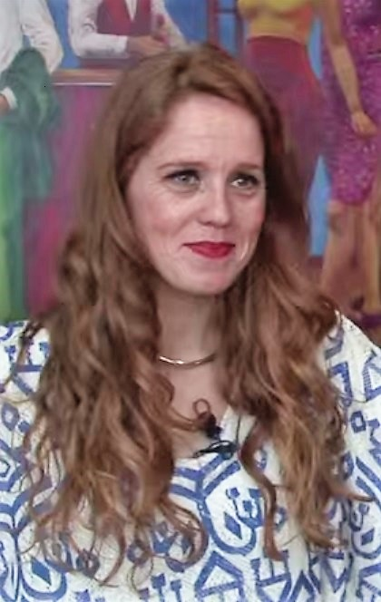 Spanish Actress María Castro